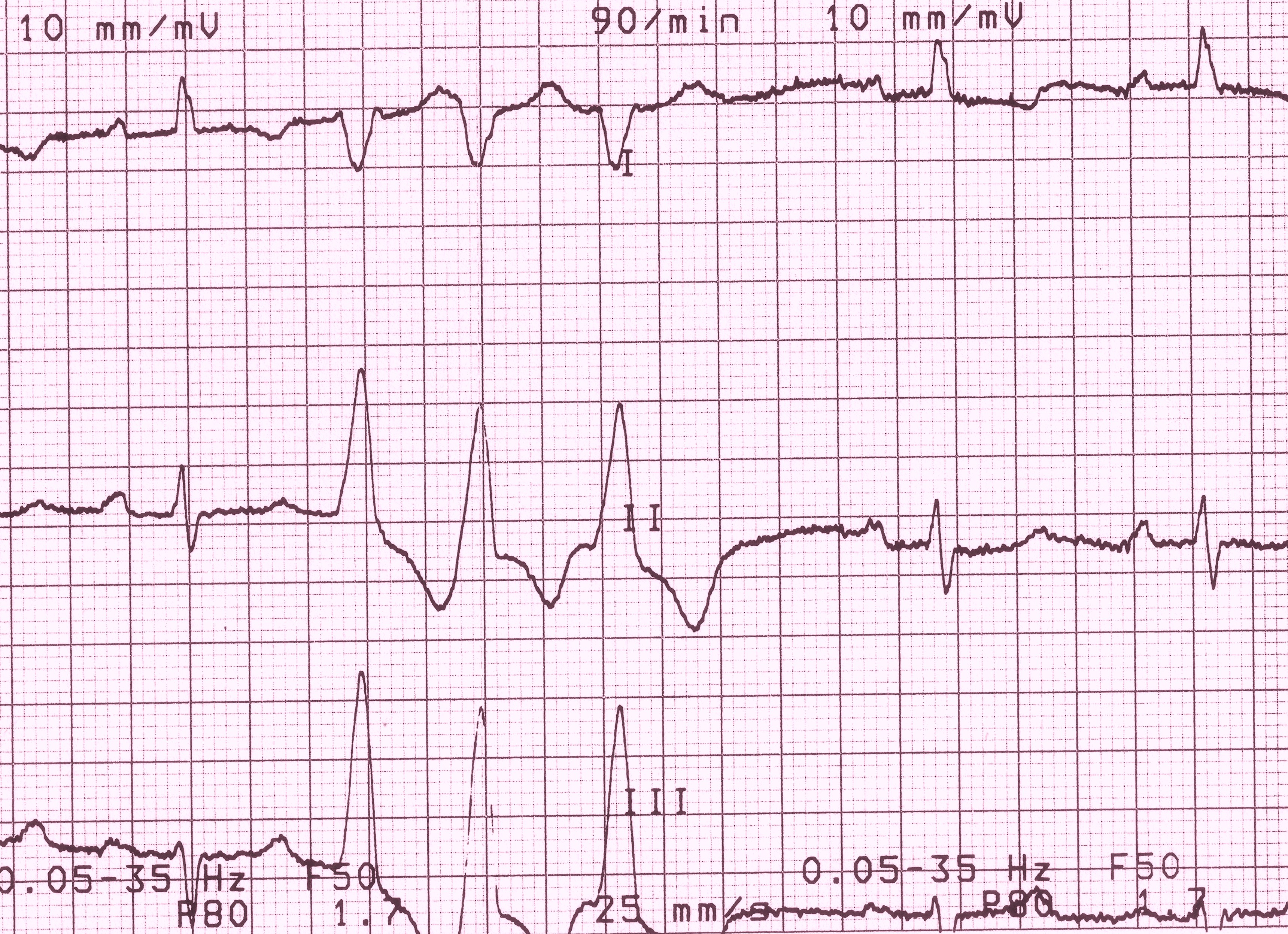 premature heart beats